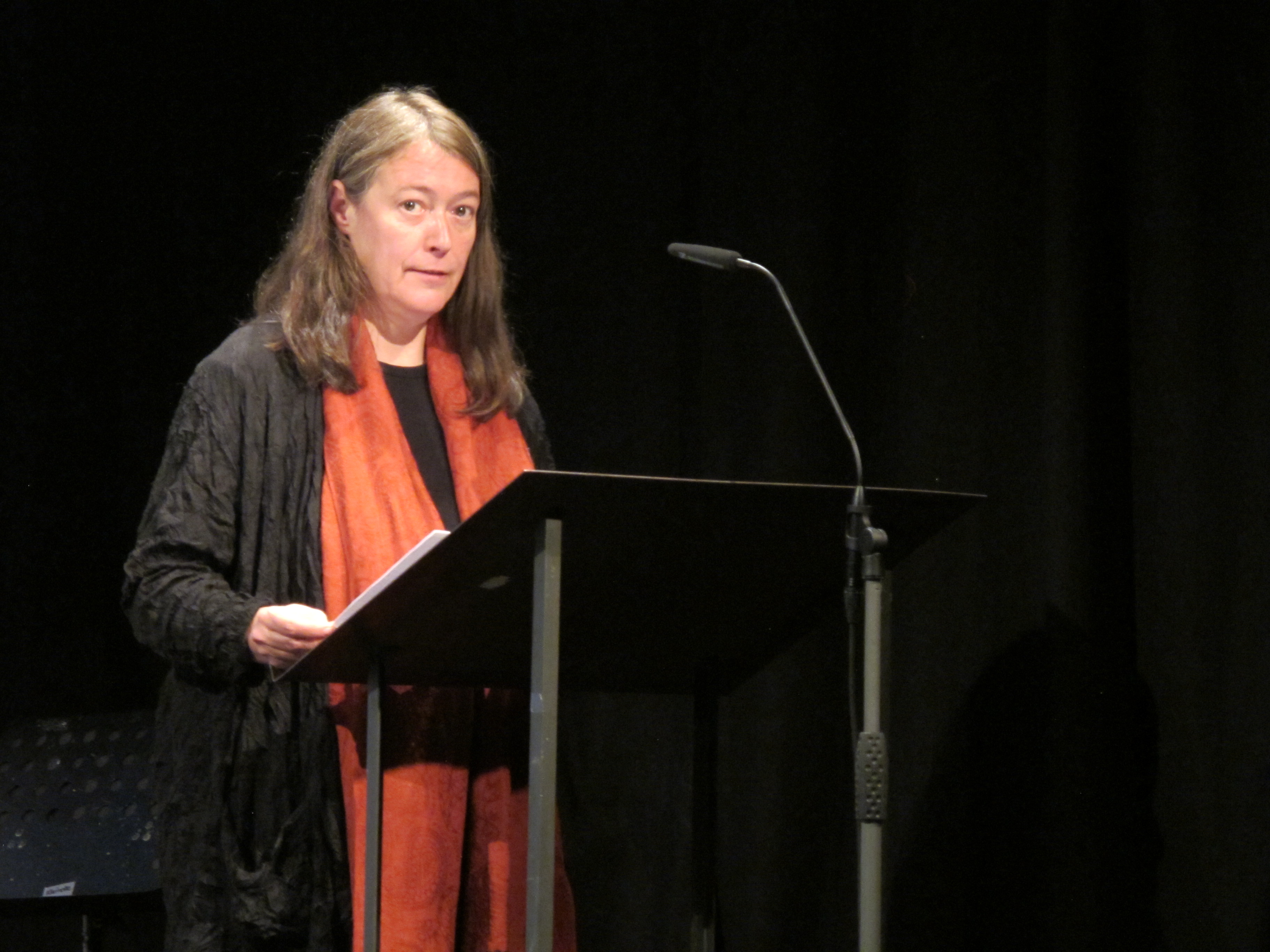 Christine Huber at the Schamrock Festival 2014 in Pasinger Fabrik, August-Exter-Straße 1, Munich